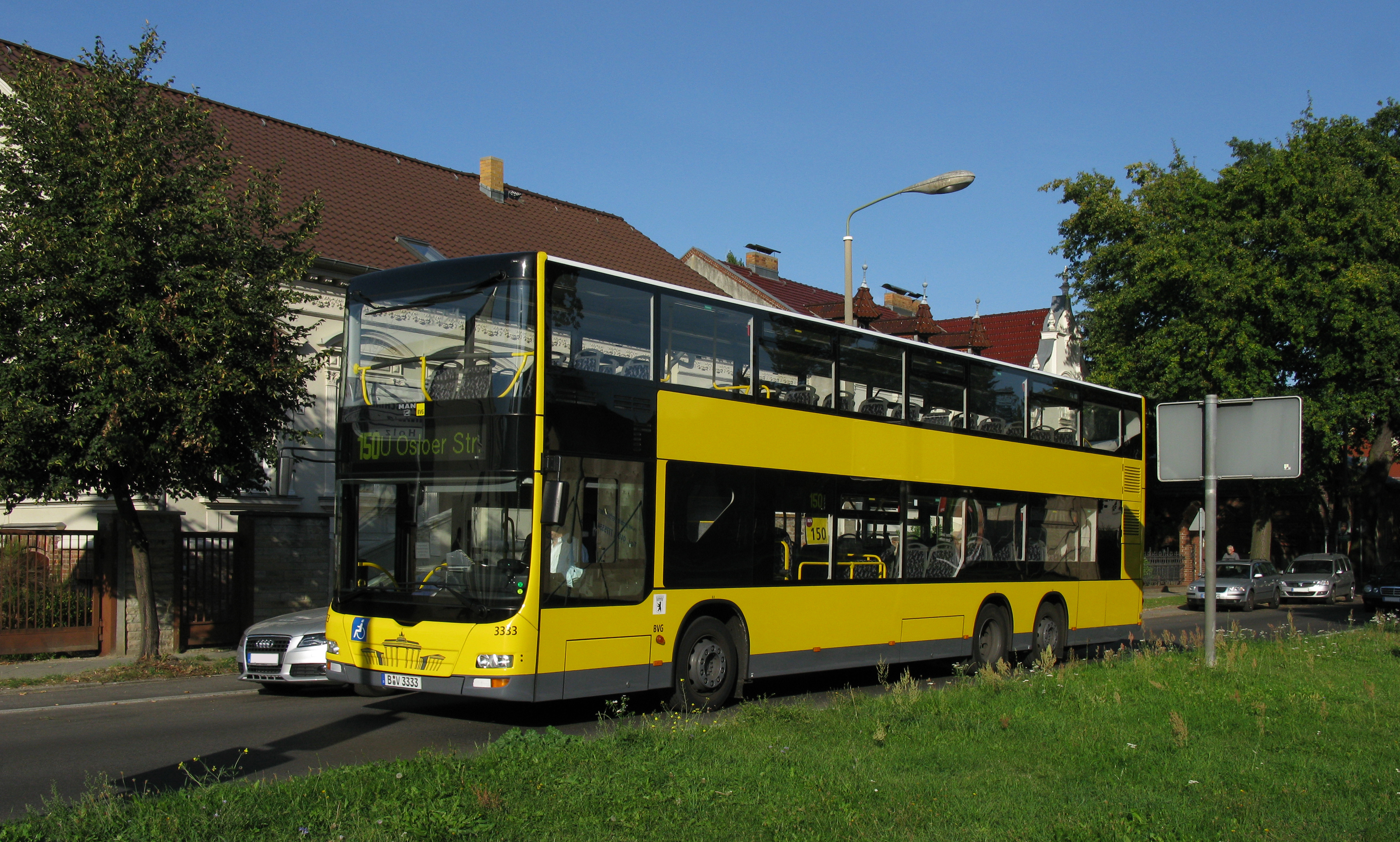 Double-decker bus 3333 of Berliner Verkehrsbetriebe (BVG) servicing line 150 from Berlin-Buch station to subway station Osloer Strasse. The vehicle is a MAN Lion's City DD/A39.